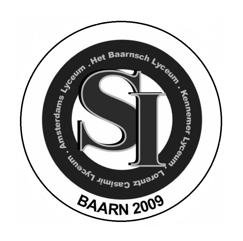 LogoSI